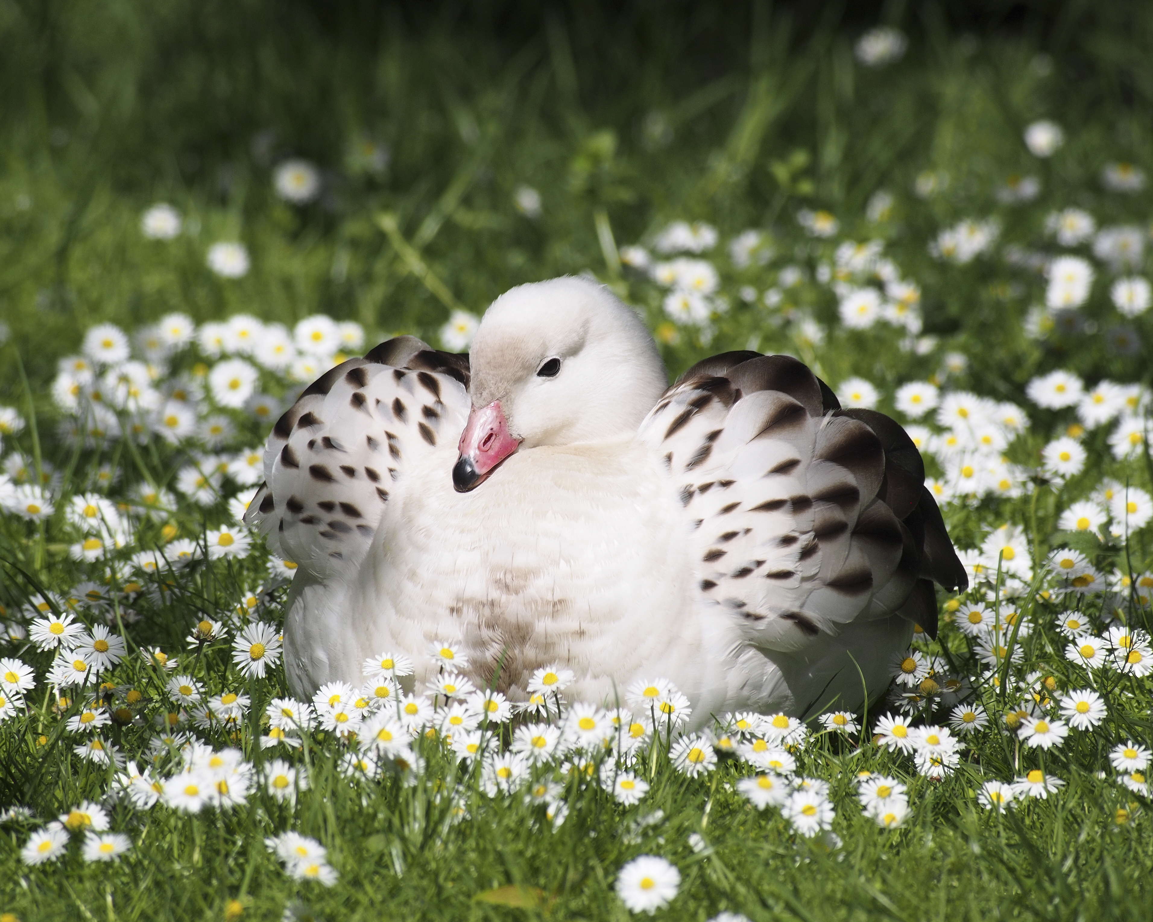 Andean goose, Chloephaga melanoptera, sat in daisies in Ormskirk, UK.